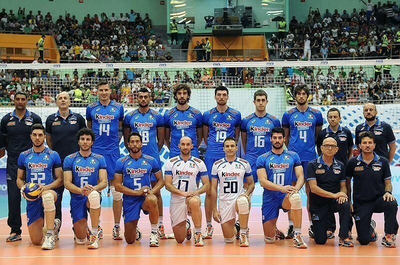 Iran-Italy in FIVB World League June, 23, 2014 - 13:39 TEHRAN (Tasnim) - Iran defeated Italy 3-0 in Pool A of the FIVB Volleyball World League at the Azadi Hall in Tehran.